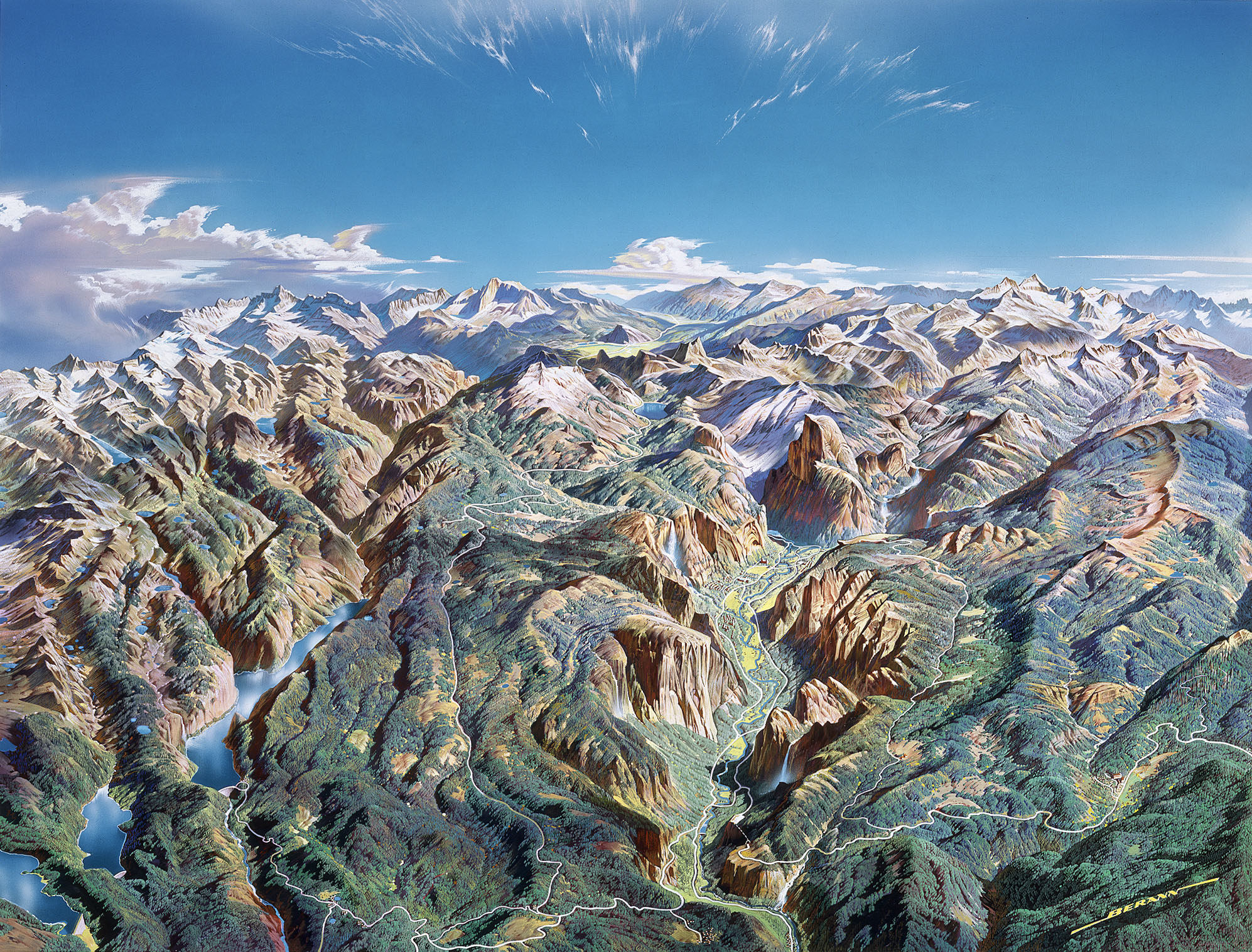 Panoramic drawing of the Yosemite National Park